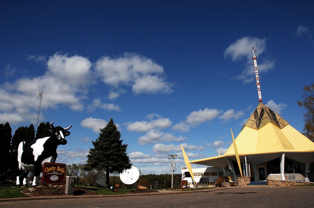 Neillsville, Wis., radio station WCCN acquired the teepee building and the world's largest talking cow Chatty Belle, after the end of the 1964 New York World's Fair. WCCN has its broadcast studios in the teepee.